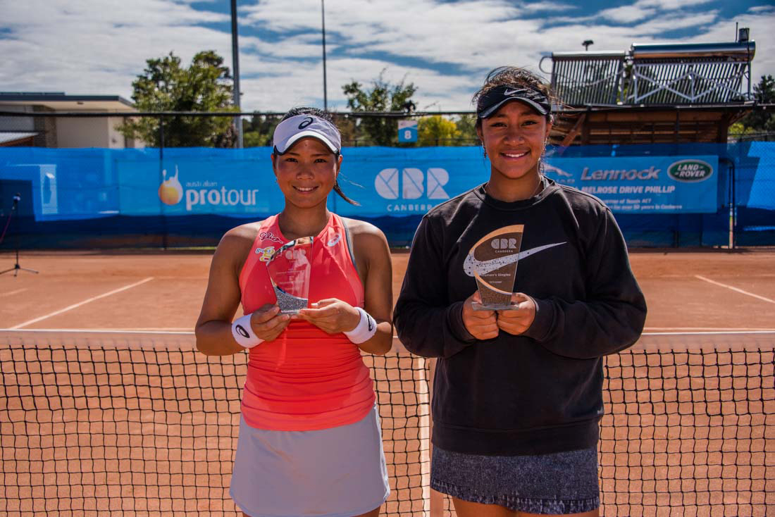 Runner-up Risa Ozaki (left) from Japan and 2019 Champion Destanee Aiava from Australia.